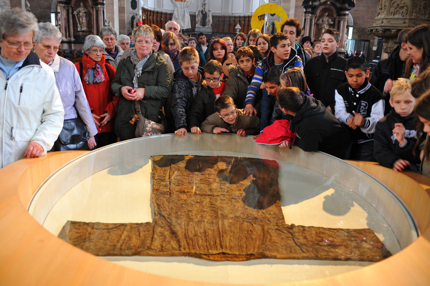 TRIER, Germany – Pilgrims and visitors view the “Holy Robe,” a tunic reportedly worn by Jesus, at the Trier Dom Cathedral here April 25. This year marks the 500th anniversary of the first public appearance of the robe, which was last on display at the cathedral in 1996. Hundreds of thousands of people from around the world are expected to visit to see the relic, which is on display until May 13.